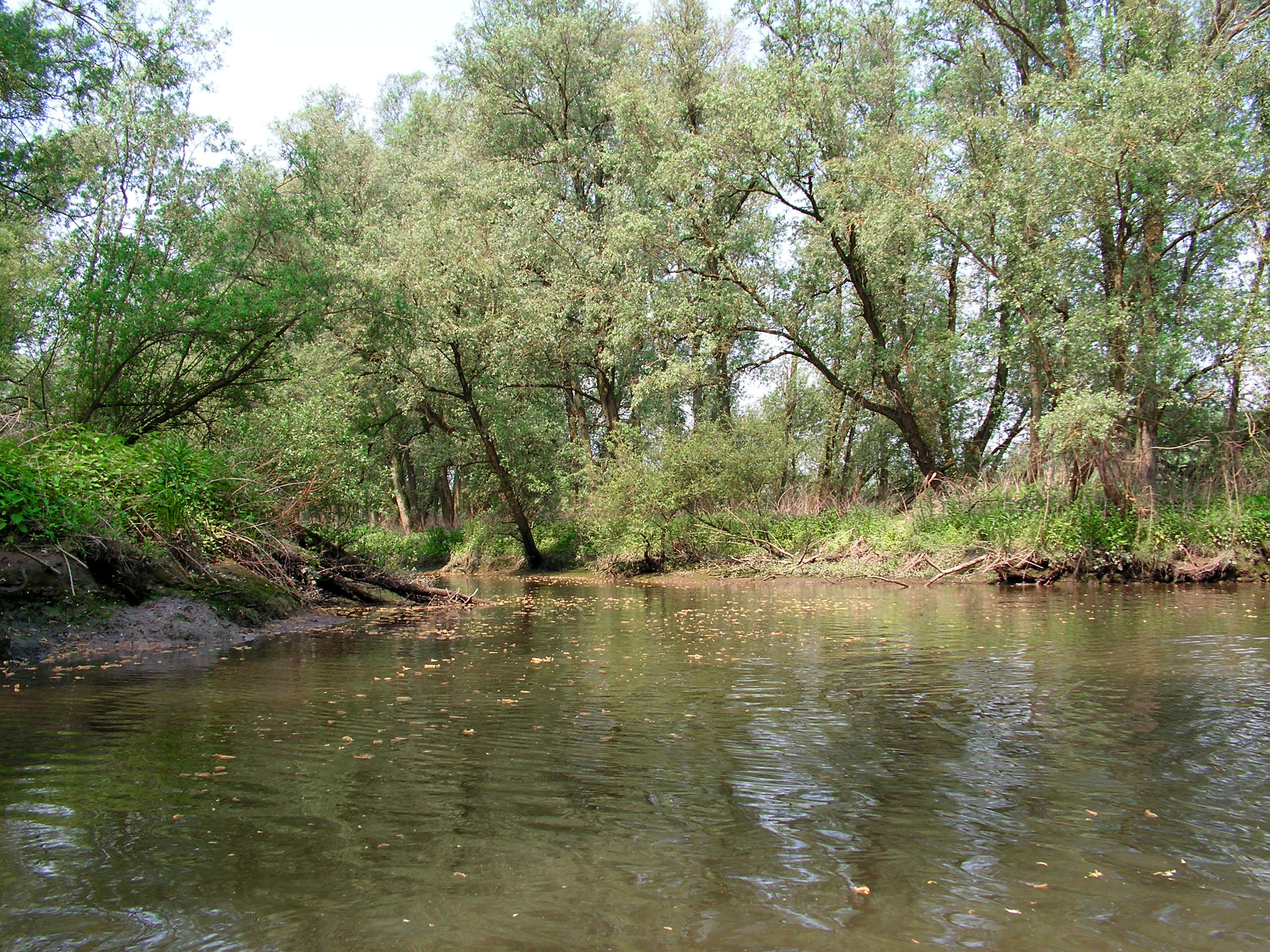 Typical view of the internal parts of the Hollandsche Biesbosch (national park), near Dordrecht, Netherlands. Notice on the reeds how the tide is now low.